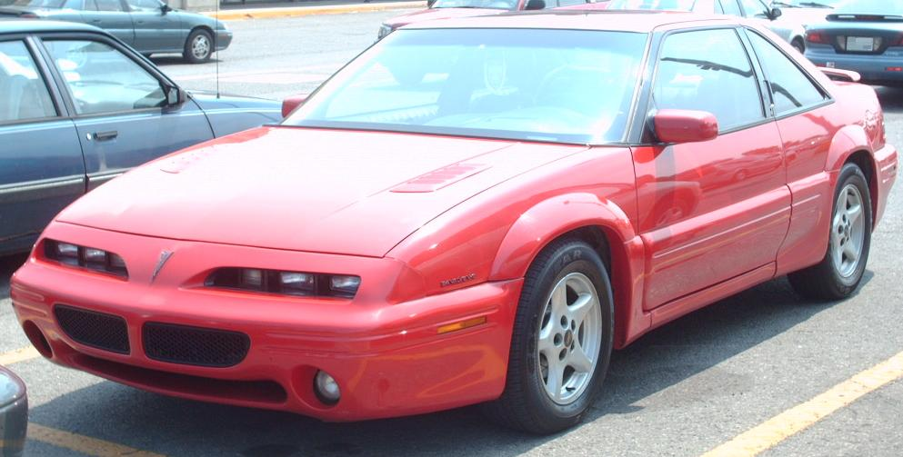 1994-1996 Pontiac Grand Prix photographed in Montreal, Quebec, Canada.